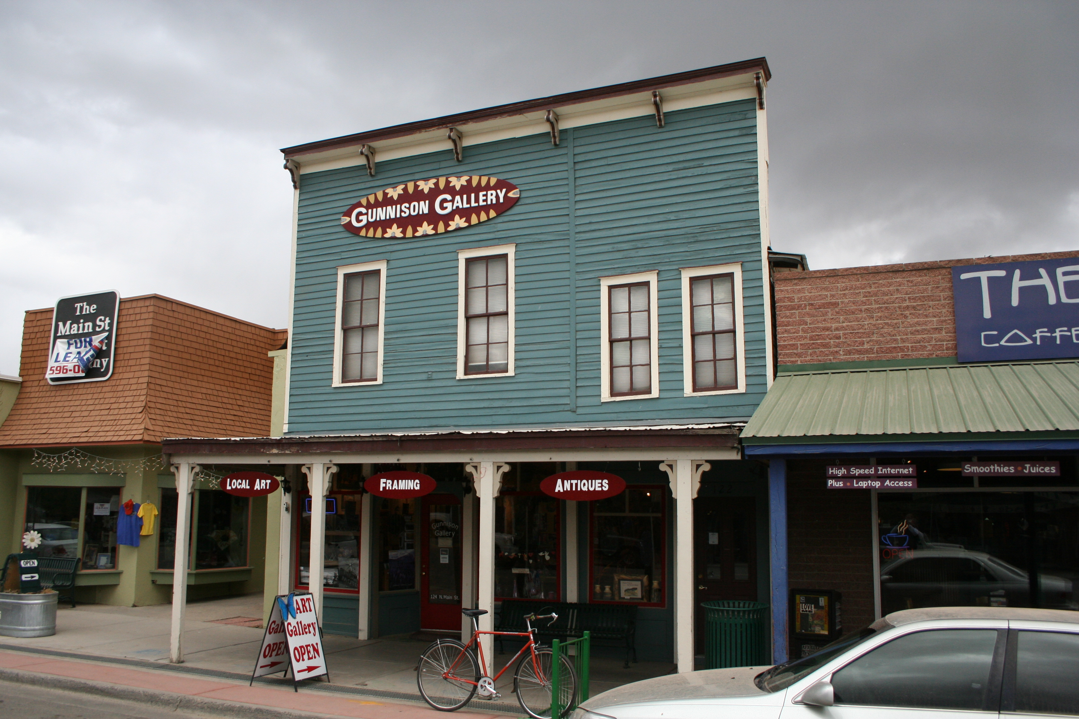 The Vienna Bakery-Johnson Restaurant, located at 122-124 North Main Street in Gunnison, Colorado.